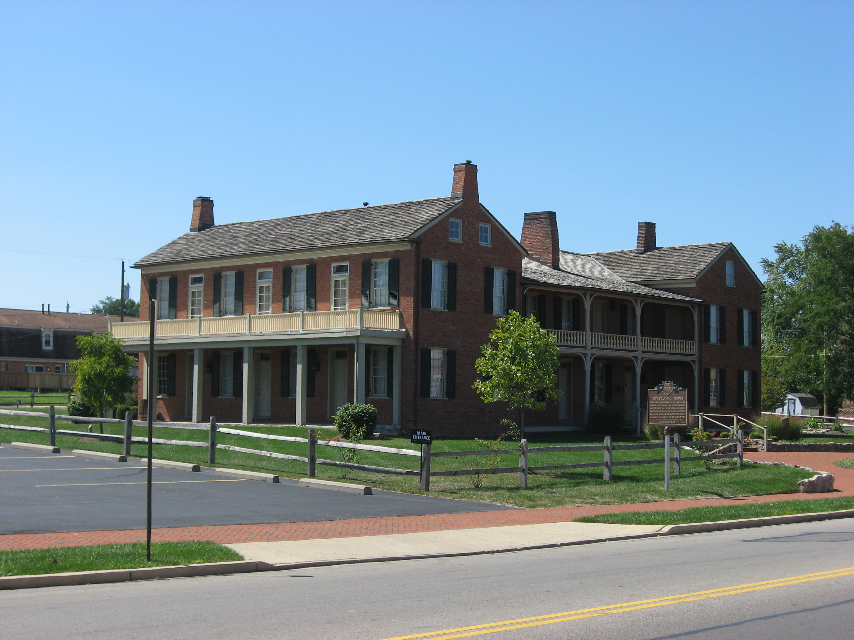 Front of the Pennsylvania House, a former inn located along the National Road on the eastern side of Springfield, Ohio, United States. Built in 1822, the building (now a museum) is listed on the National Register of Historic Places.